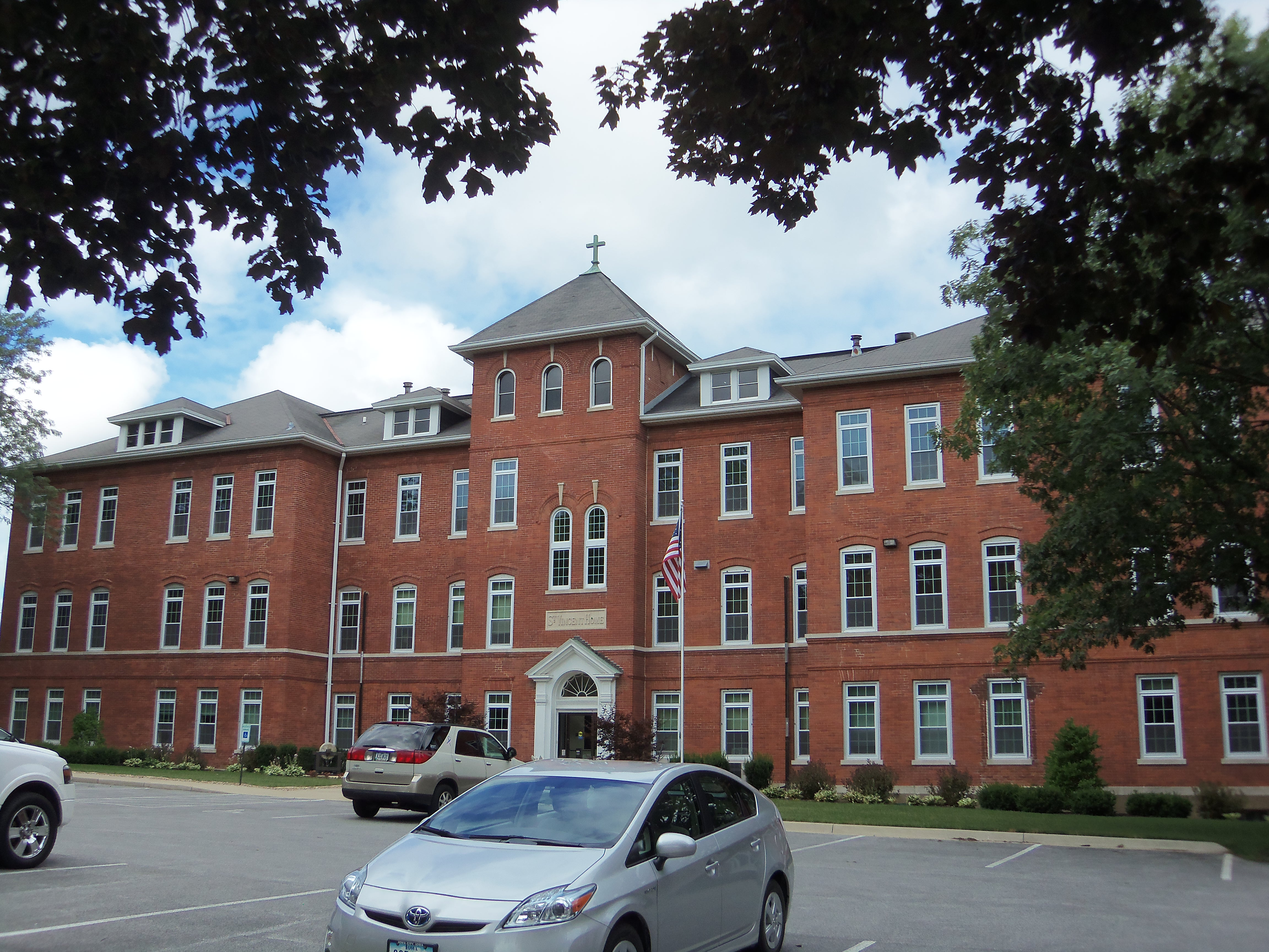 St. Vincent Center in Davenport, Iowa is the pastoral center for the Catholic Diocese of Davenport. It was built in stages as St. Vincent's Home, an orphange operated by the Congregation of the Humility of Mary.